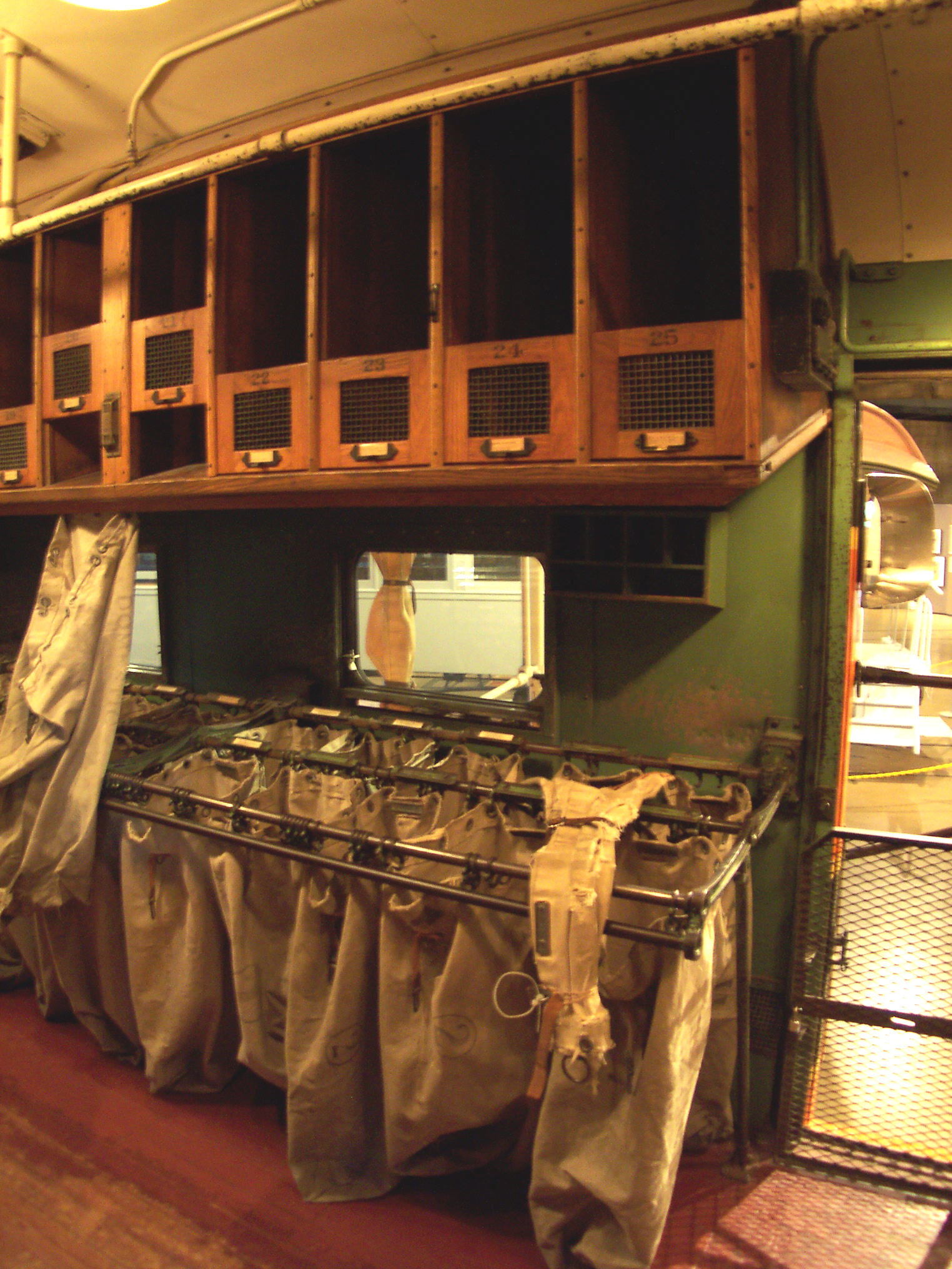 An interior view of Great Northern Railway No. 42, a Railway Post Office car, on display at the California State Railroad Museum in Sacramento. Photograph by Robert A. Estremo, copyright 2004.